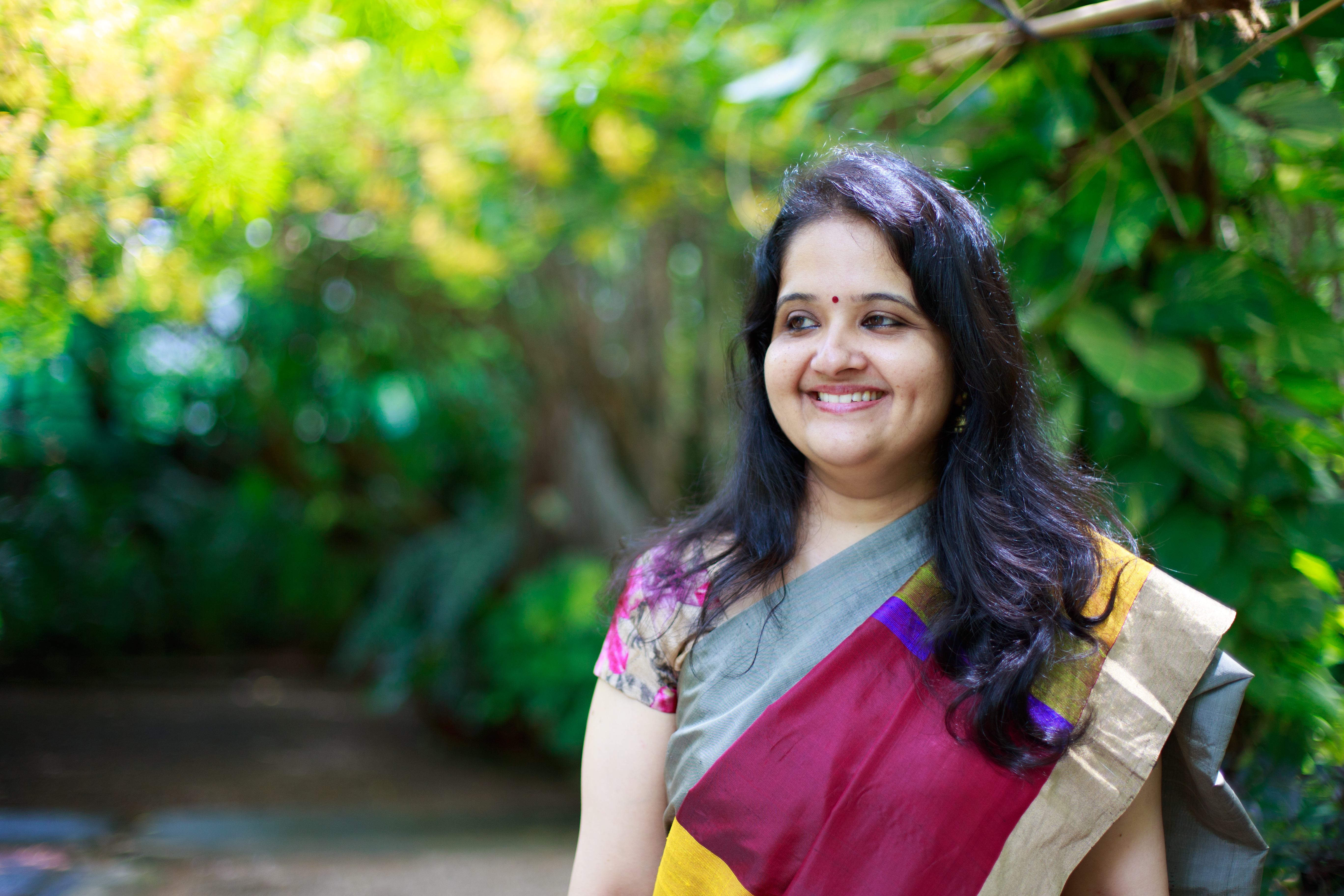 Portrait of Renuka Arun, classical music singer and play back singer in Malayalam and Telugu